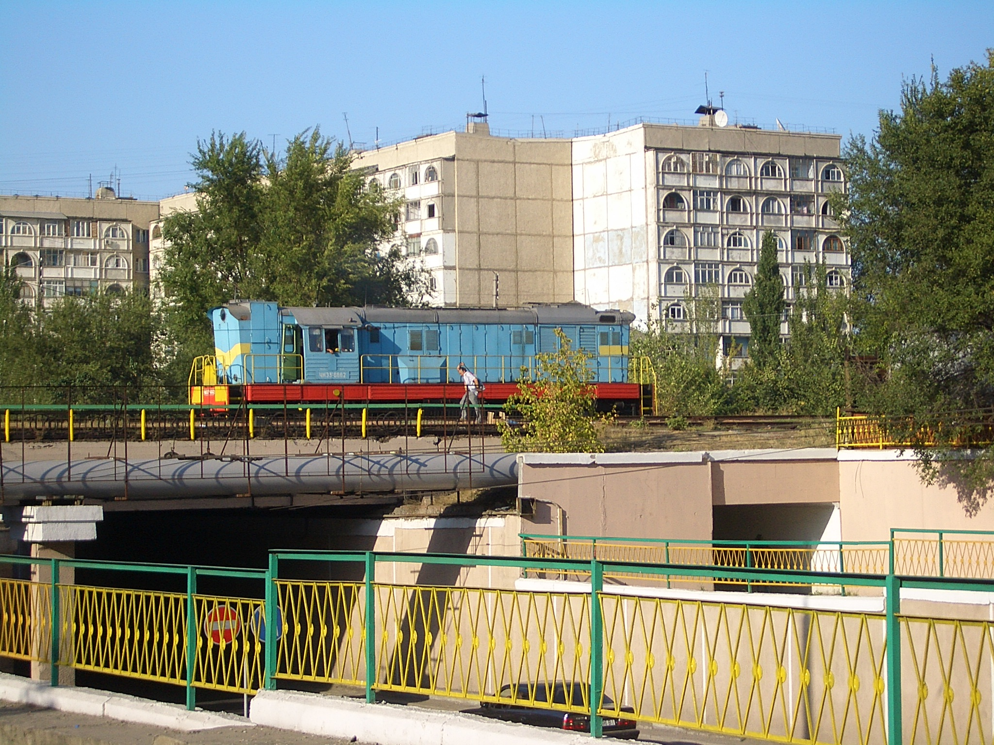 A diesel loco on an overpass (over the former Sovietskaya St.) just east of Bishkek-2, Bishkek's main train station.